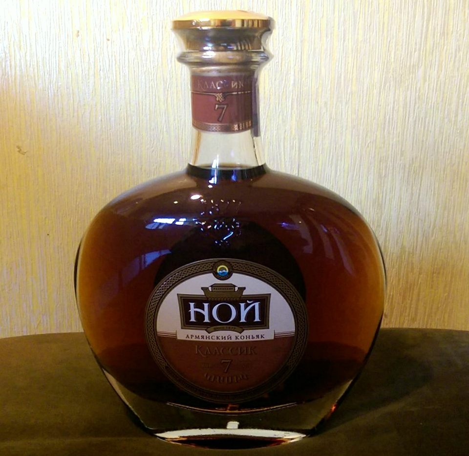 Noy brandy, Yerevan Ararat Wine Factory